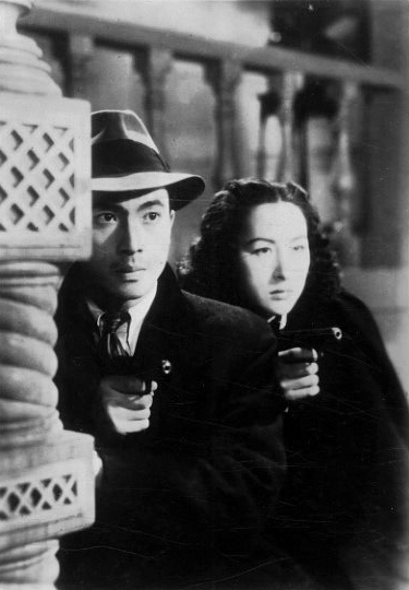 Masao Wakahara (left) and Yumeko Aizome in the 1941 film Shinsei no uta